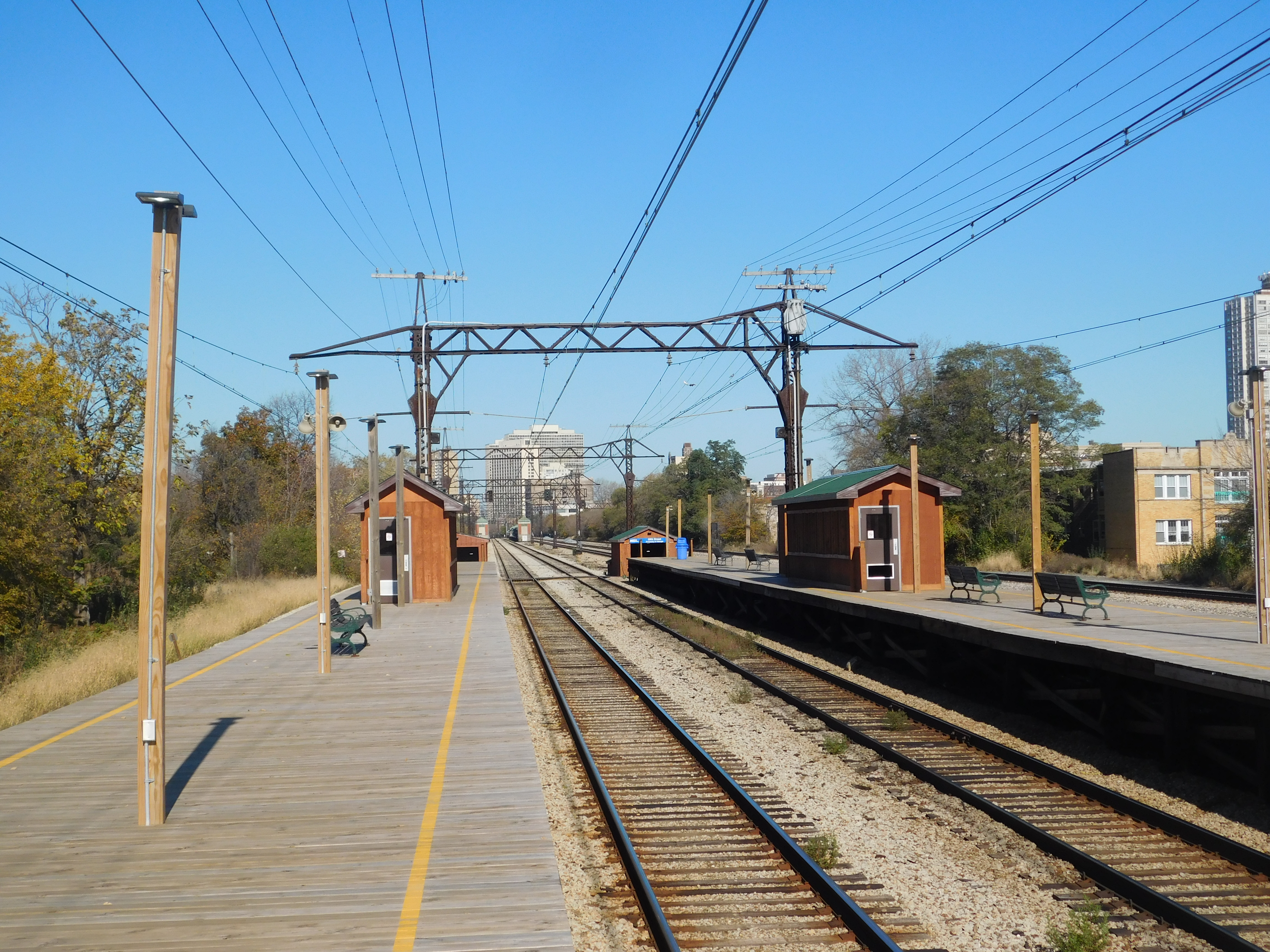 The 59th Street/University of Chicago station for the Metra Electric District in November 2016.